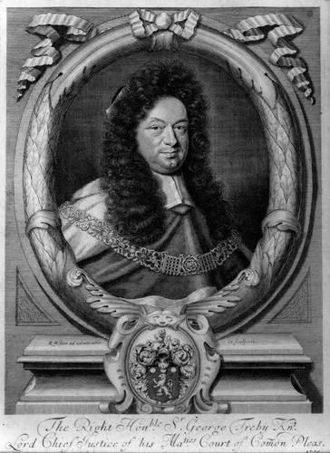 Sir George Treby (c1644-1700)